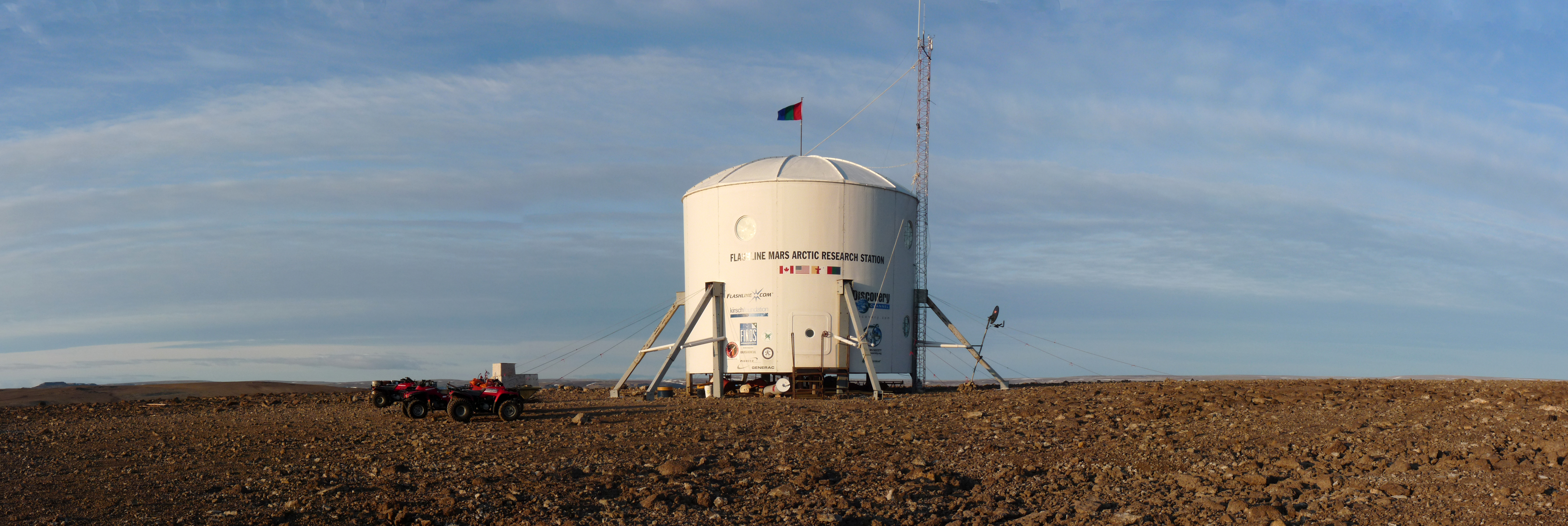 FMARS habitat panorama